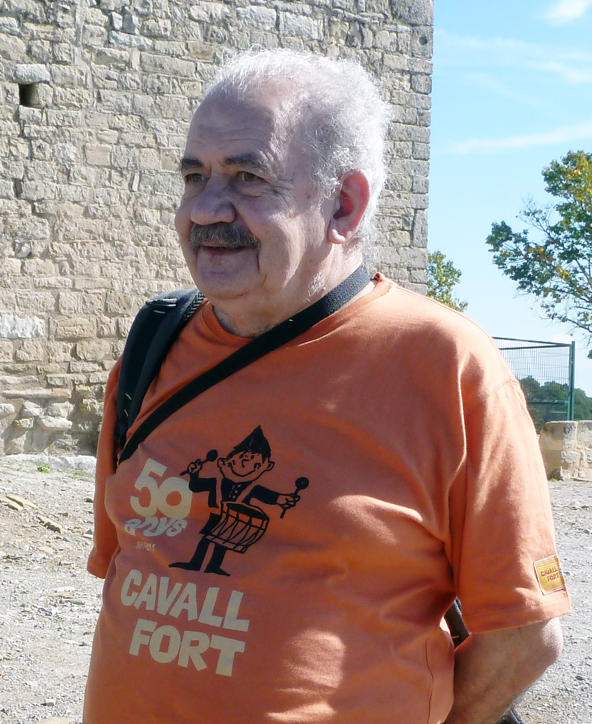 Catalan writer and ex-director of Cavall Fort (Catalan children's magazine)